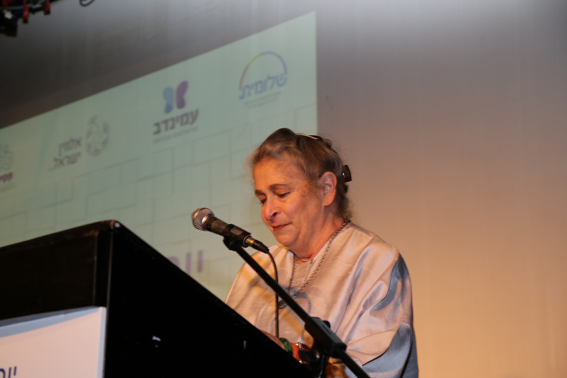 The President's wife, Nechama Rivlin, awarded certificates of appreciation to some 150 young people with disabilities who will finish their national service in 2017. Tuesday, July 4, 2017. Photo credit: Meir Goldstein.